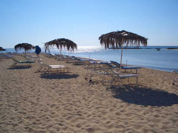 Ayia Thekla Beach